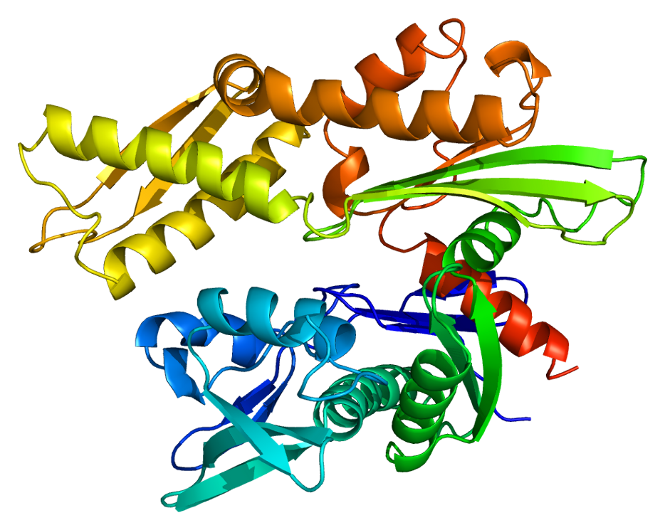 Structure of the HSPA1A protein. Based on PyMOL rendering of PDB 1hjo.